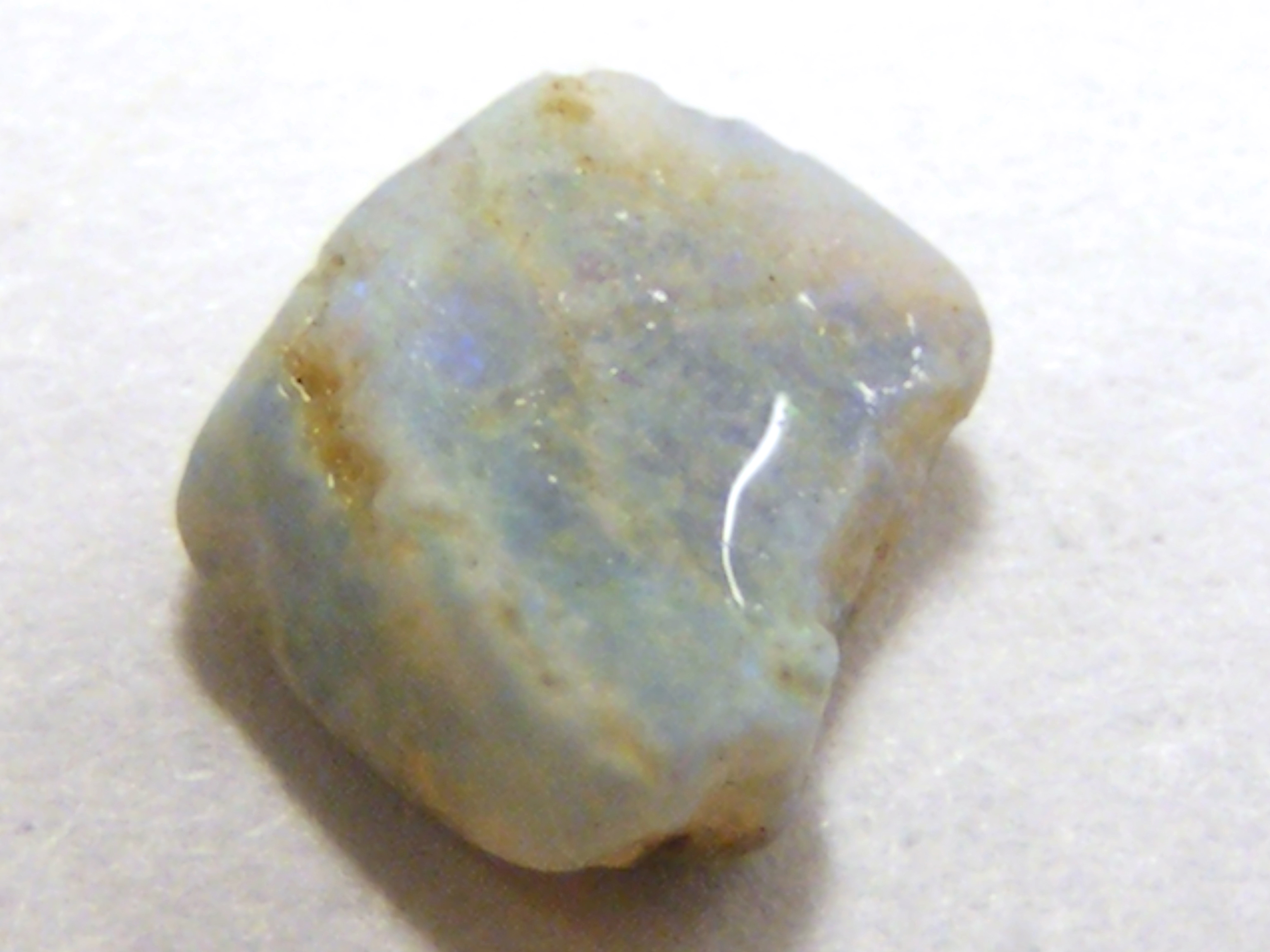 Raw opal found in Andamooka South Australia